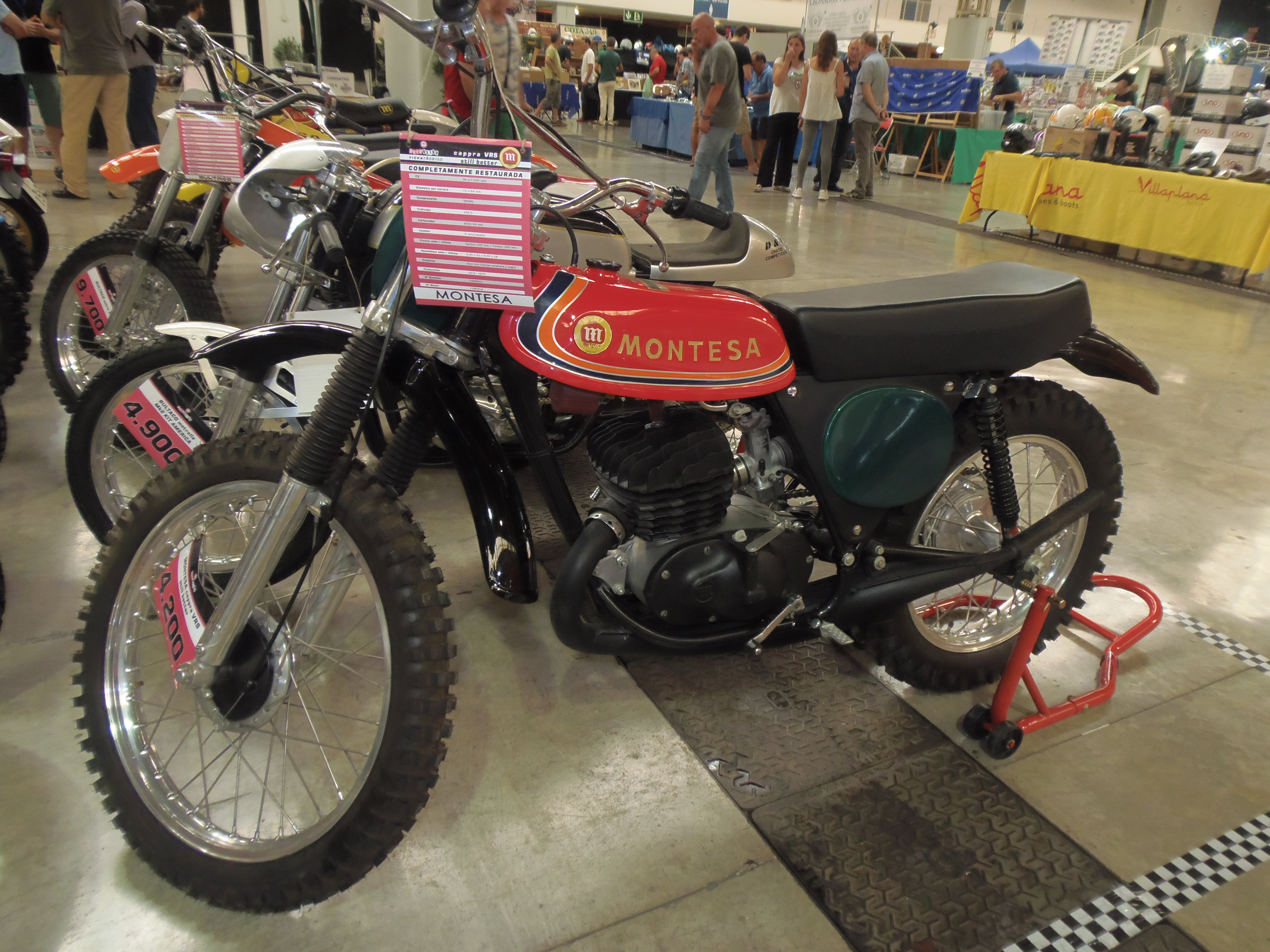 Montesa Cappra VR Still Better 250, 1973